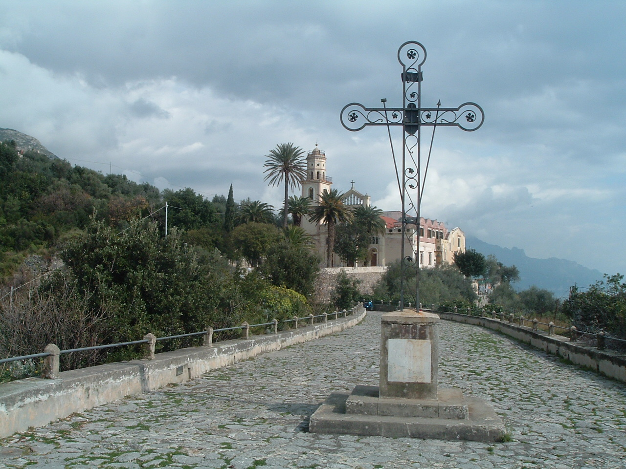 Landscape of the church of Saint Pancras from Punta Vreca in Conca dei Marini, in the Amalfi Coast